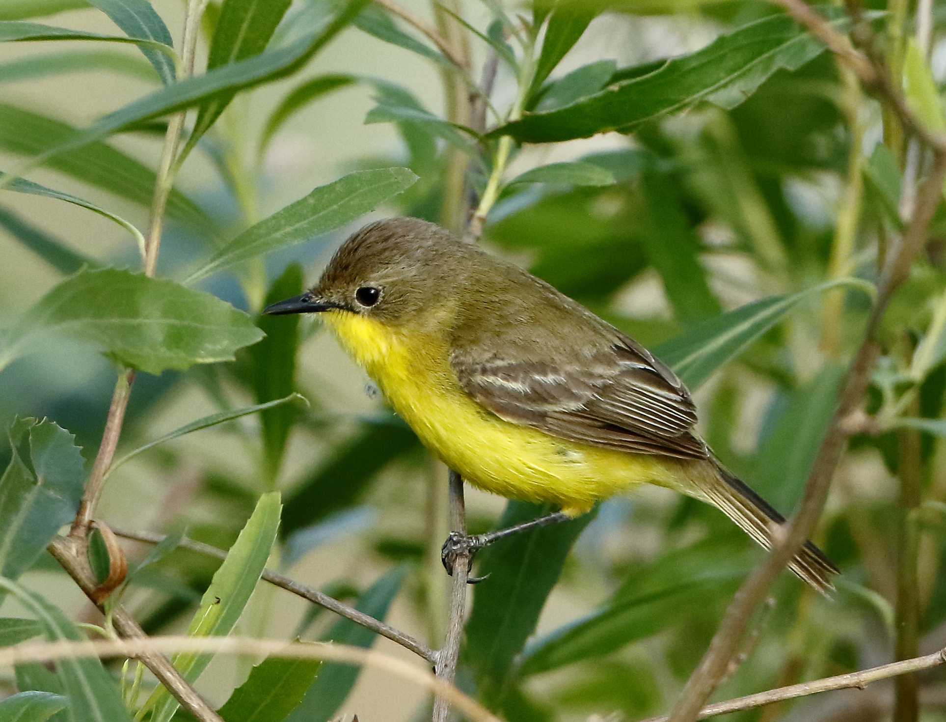 Dinelli's doradito at Laguna La Verdecita, Santa Fe, Argentina